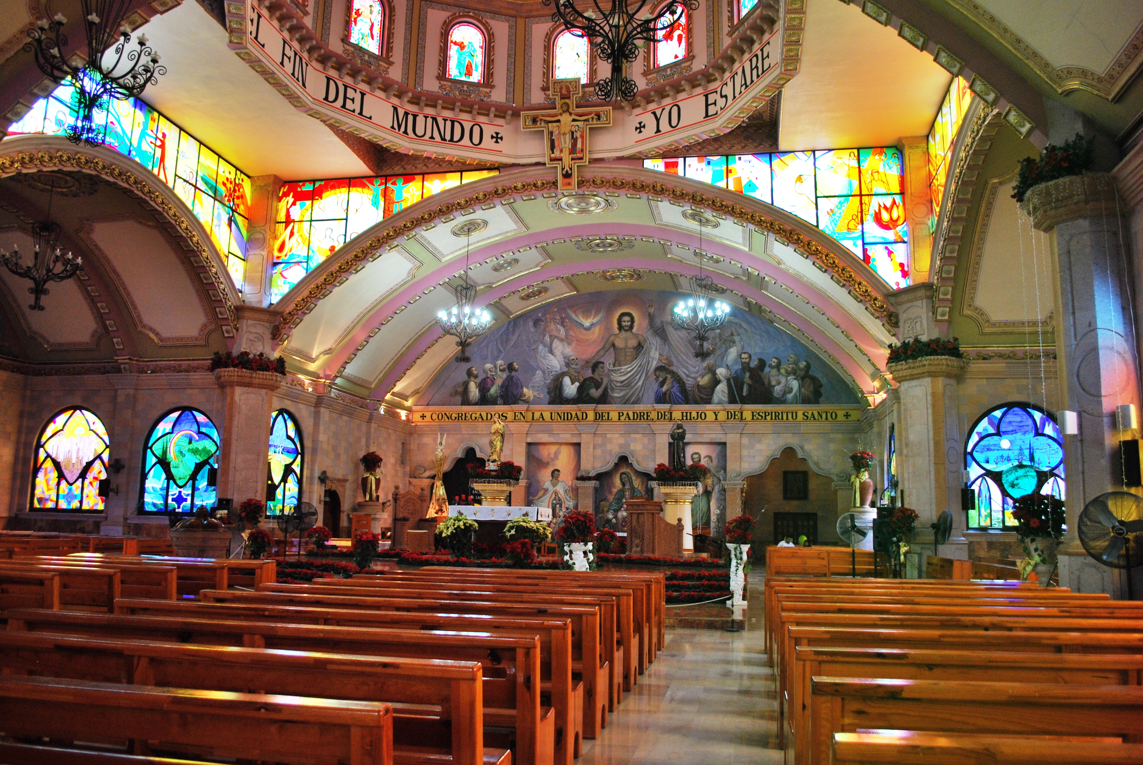 Nave of the San Francisco de Asís Church in Jalpa de Méndez, Tabasco